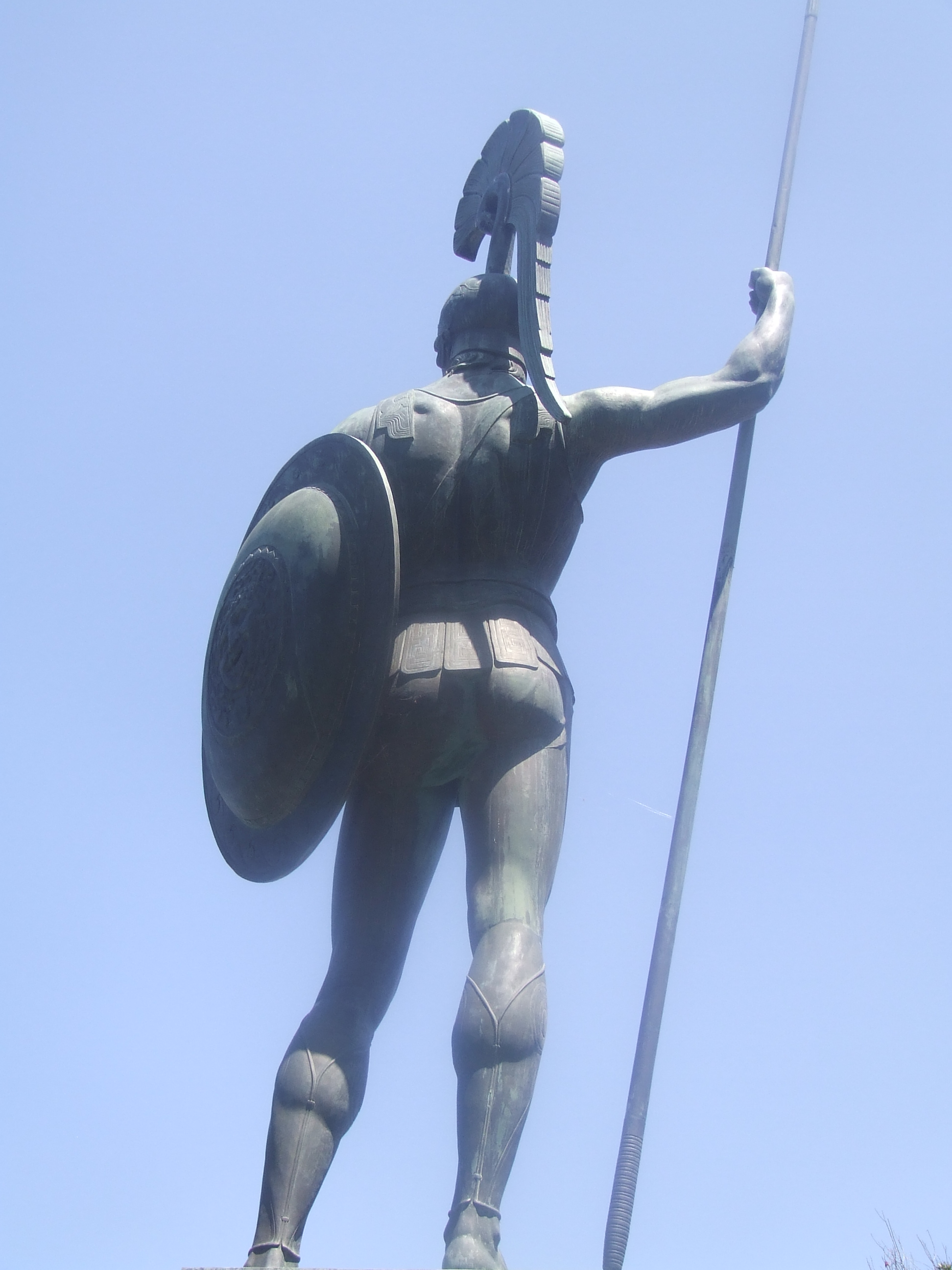 Kämpfender Achille, rear view, short tunic